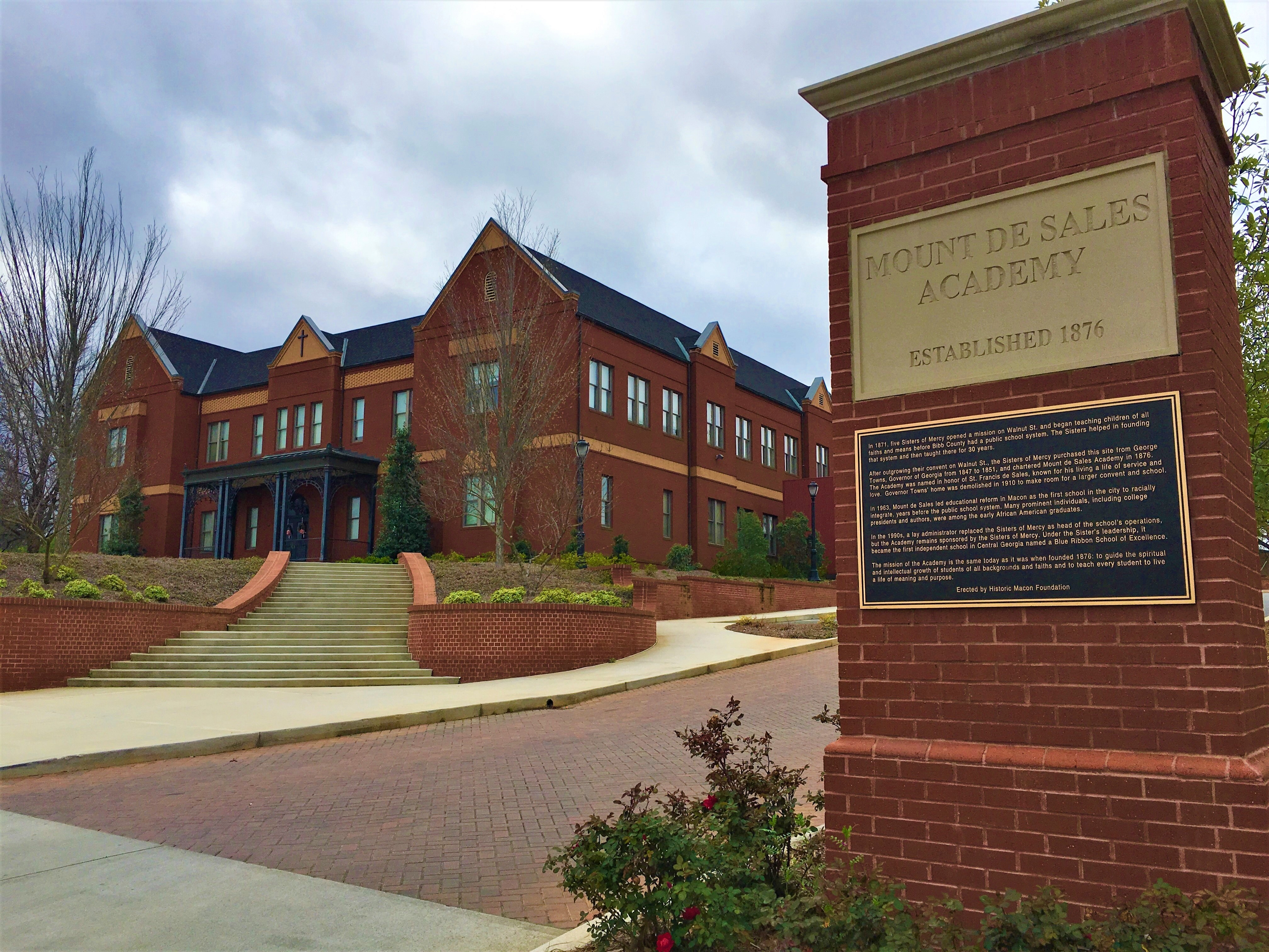 Sheridan Hall on the campus of Mount De Sales Academy